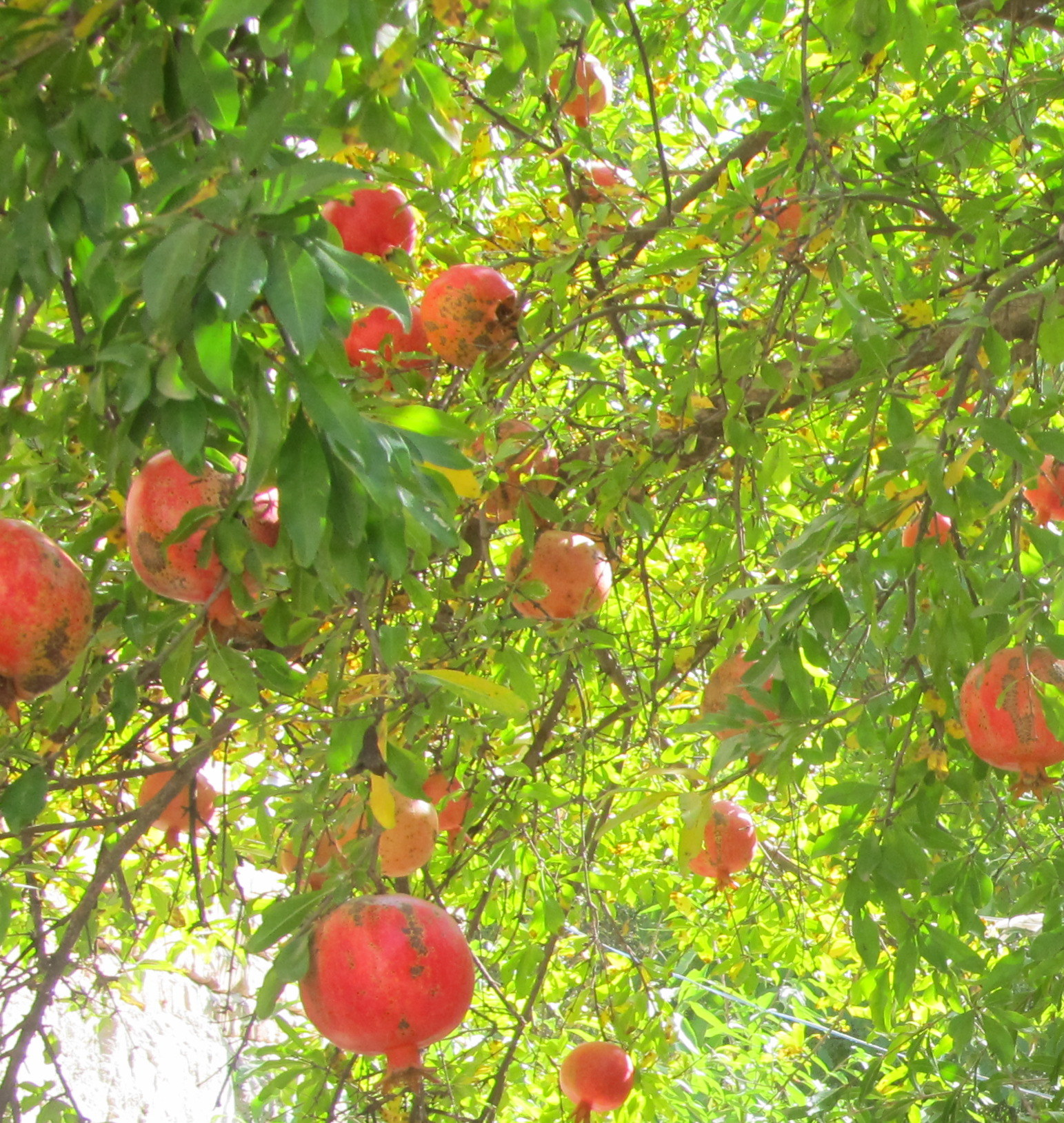 This is a photo of Pomegranate fruits in a garden in Mardanaqom village.